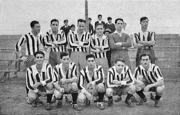 Team of C.A. Progresista, champion of the Argentine Primera C (Tercera División)